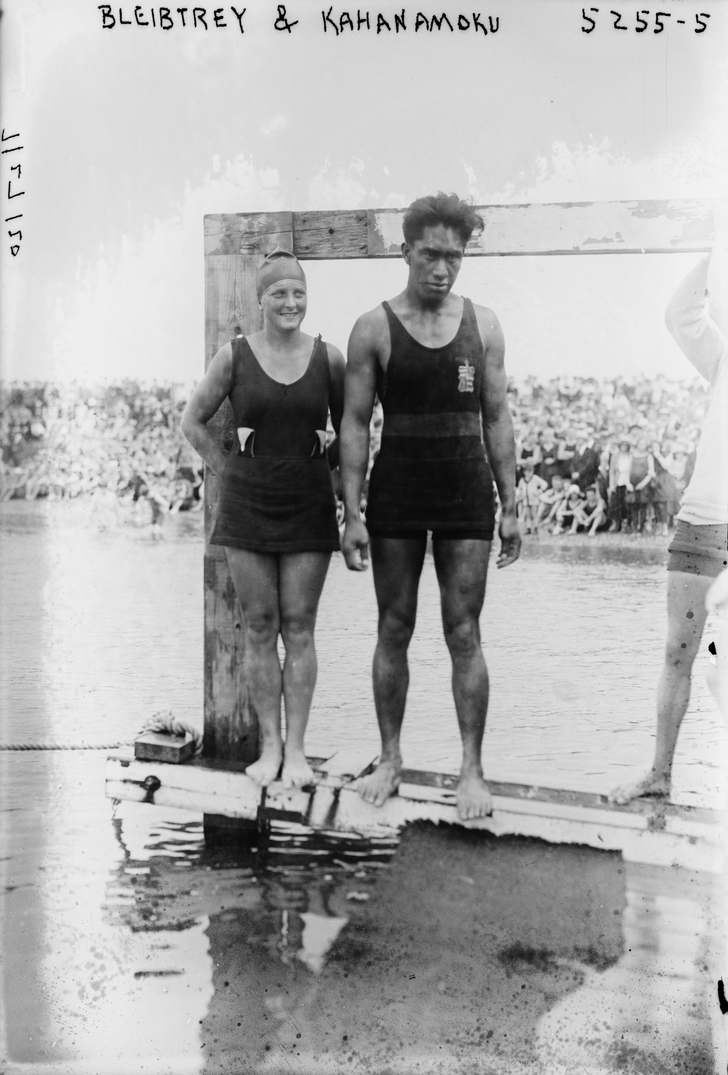 Bain News Service, publisher. Bleibtrey and Kahanamoku